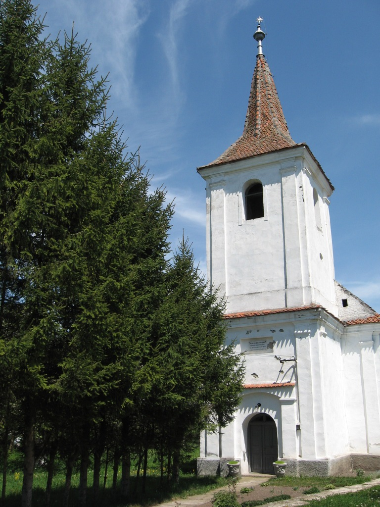 Covasna County, Aita Mare , Reformed church